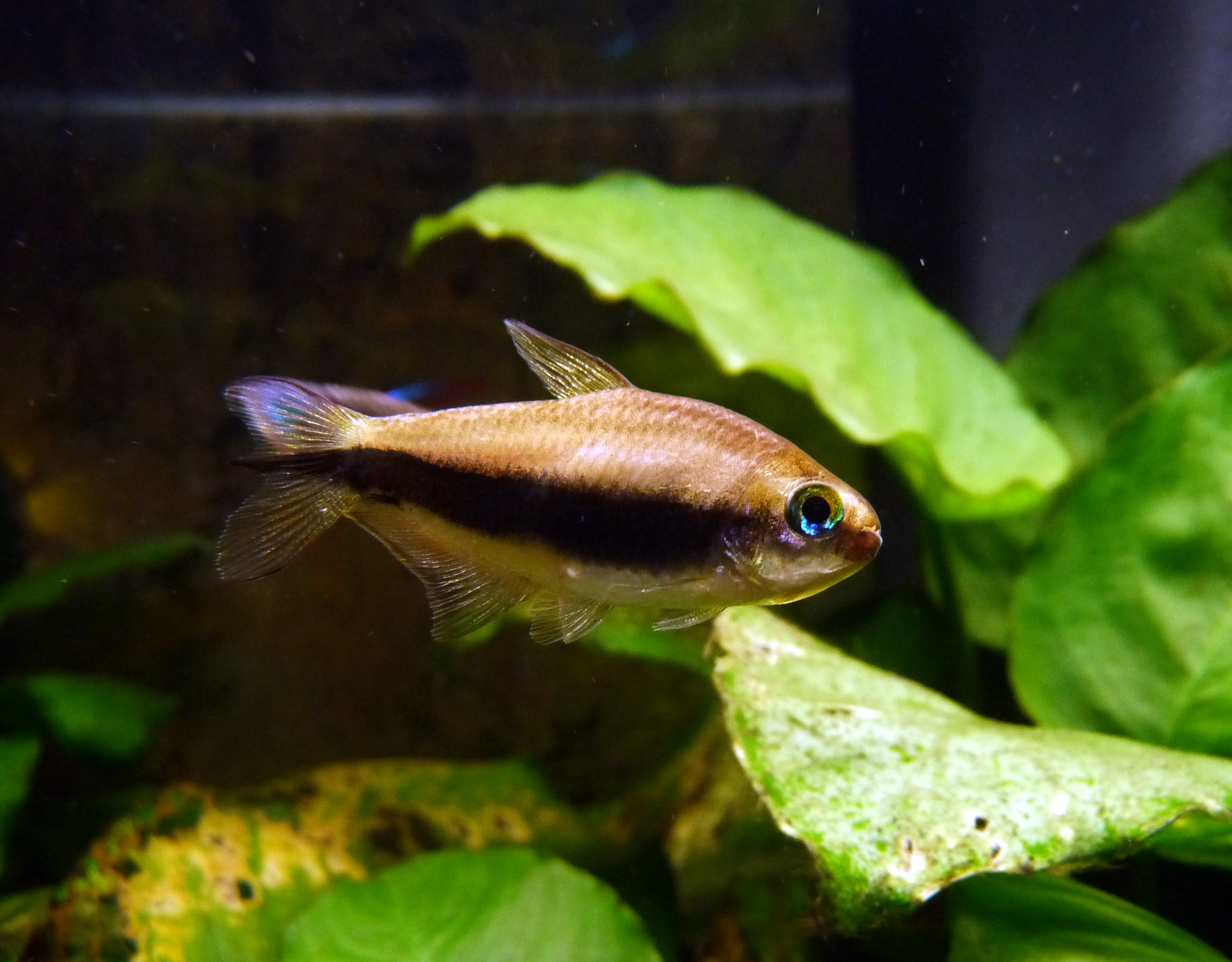 Emperor tetra, Nematobrycon palmeri female